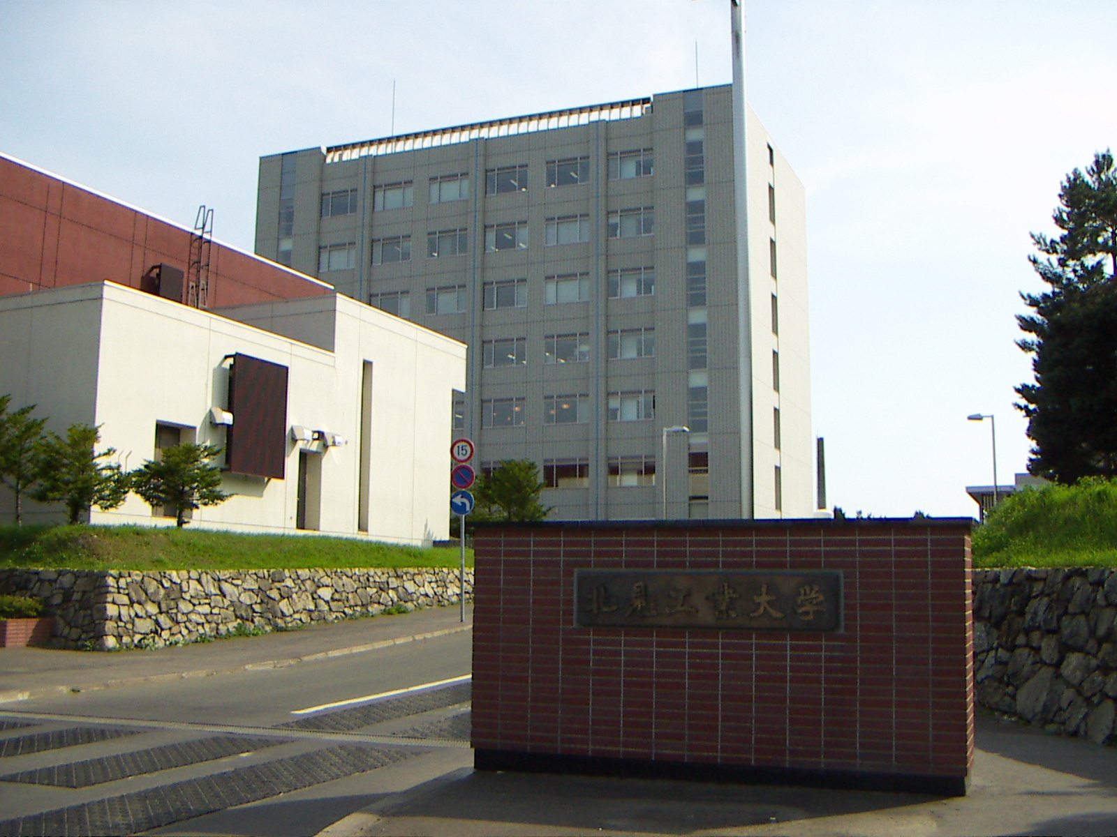 Kitami institute of technology in Kitami City